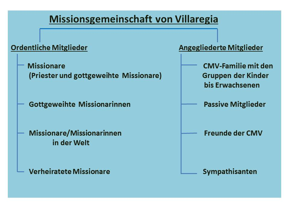 Membership at the Missionary Community of Villaregia